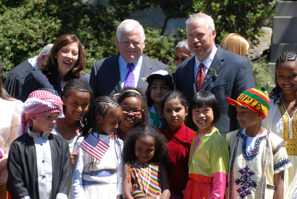 4th of July naturalization ceremony, 2011 with Senator Maria Cantwell, Representative Jim McDermott, and Mayor Mike McGinn.